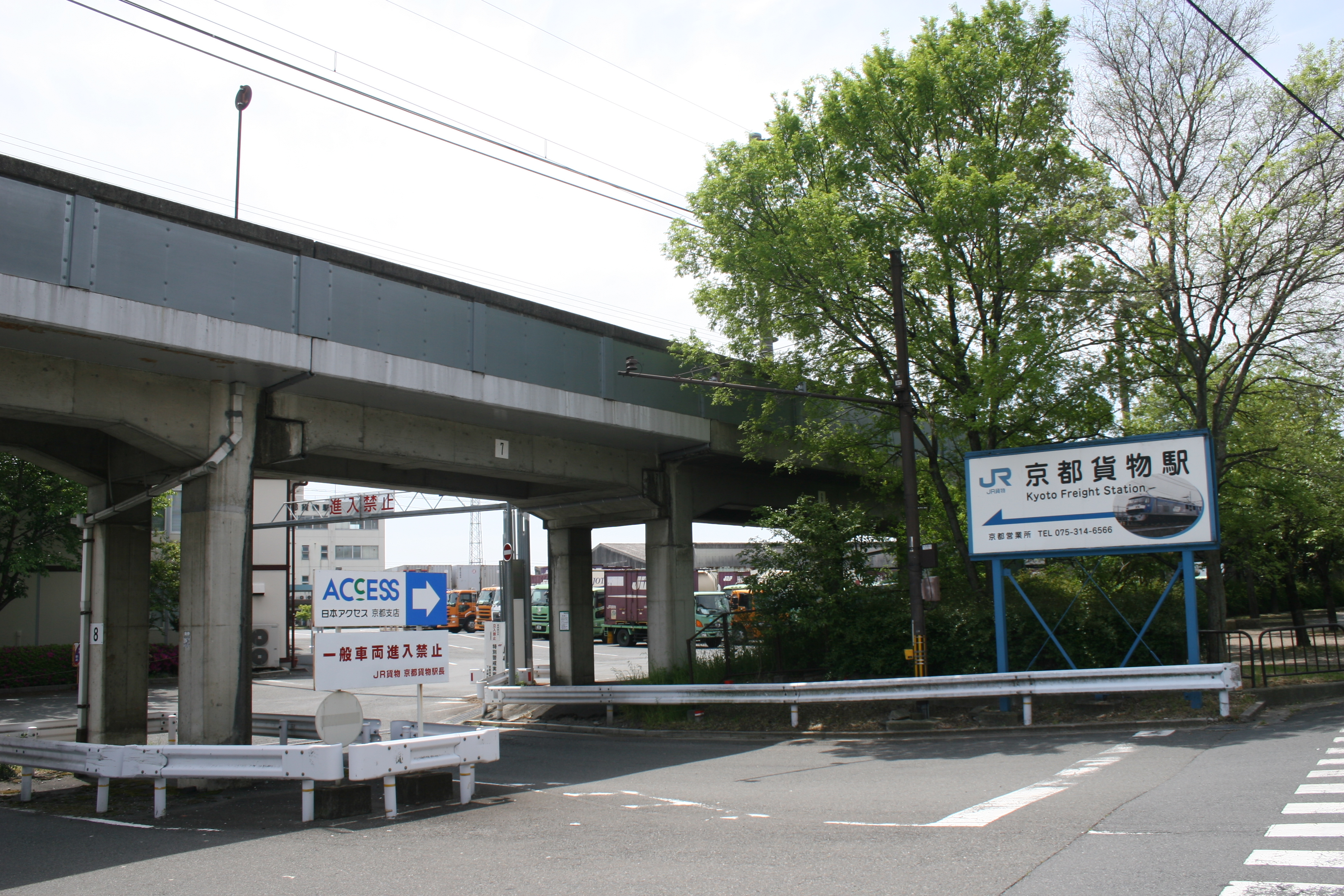 Gate of Kyoto Freight Station in Shimogyo-ku, Kyoto, Japan